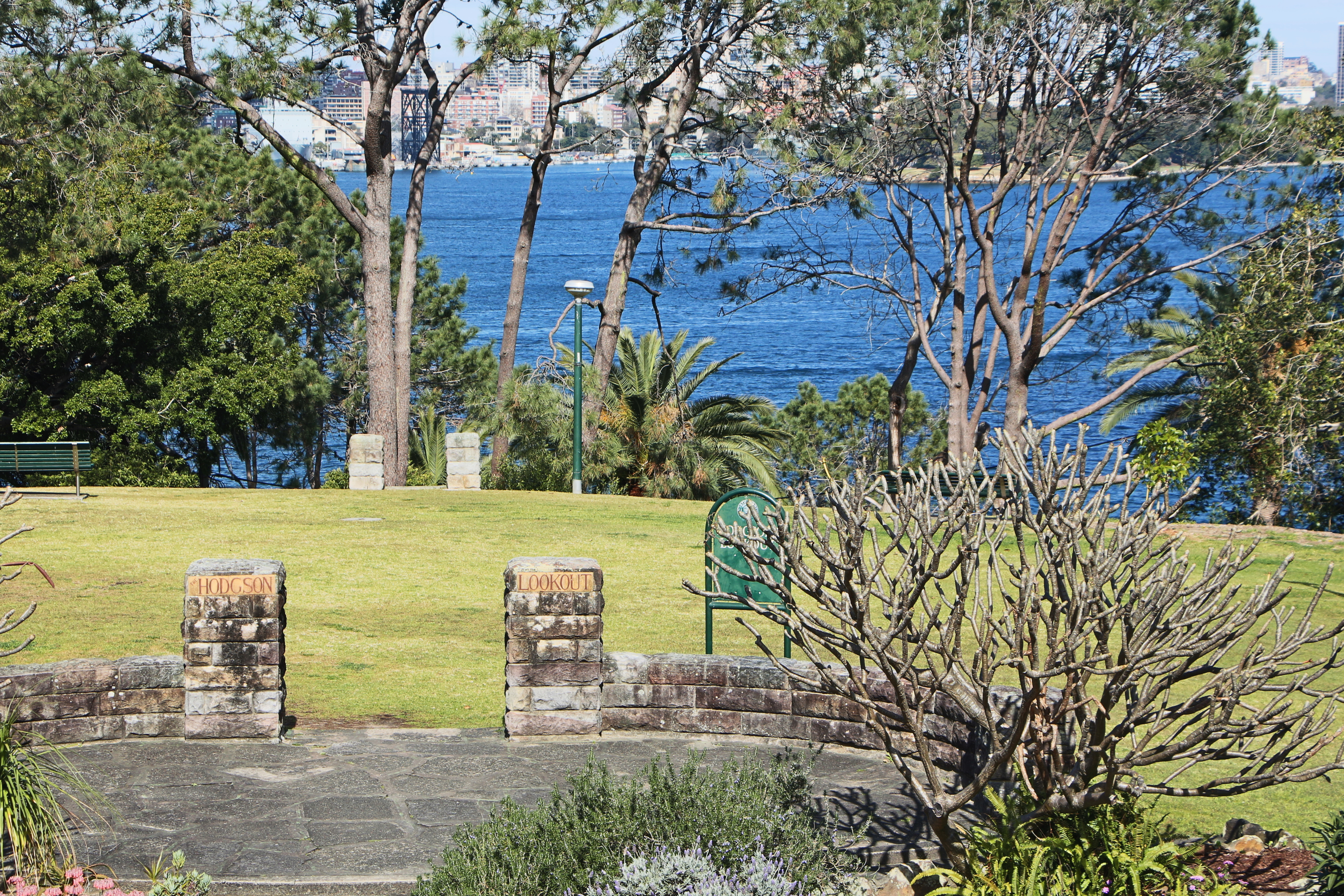 Hodgson Lookout at Kurraba Point, looking onto Sydney Harbour, Australia. Shows 1930s depression era work scheme elements such as the concrete fences and paving.